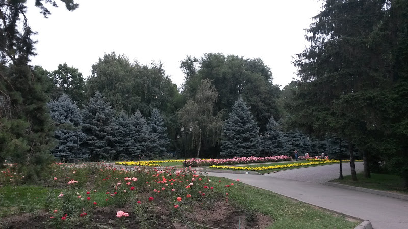 Picture taken 22-07-15 by myself in Almaty, Kazakhstan